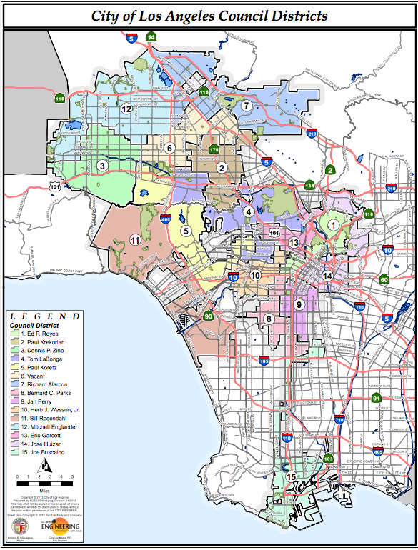 Map of Los Angeles City Council Districts. Boundaries became effective June 1, 2013. Some districts Councilmembers names have changed (2015).